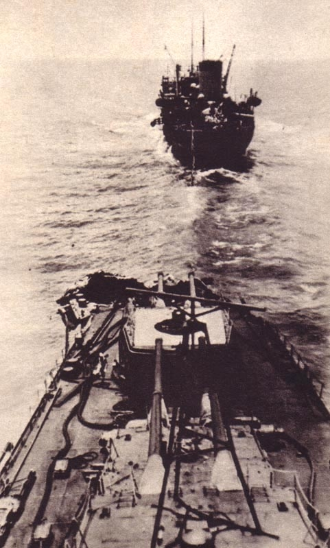 View from the bridge of the Japanese cruiser Mogami over the damaged bow during refueling from the tanker Nichiei Maru after the Battle of Midway. The bow of the cruiser was damaged by the collision with sistership Mikuma in early hours of 5 June 1942. Note the flag of Japan on the forward turret as a quick identification mark for aircraft.